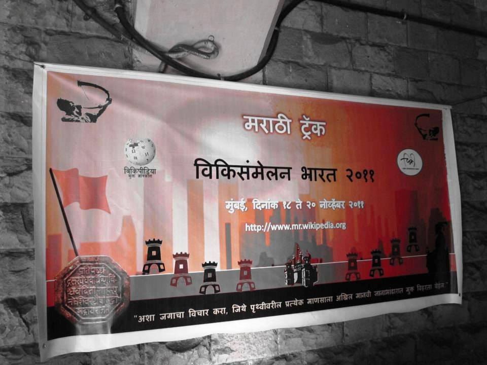 Marathi Wikipedia banner